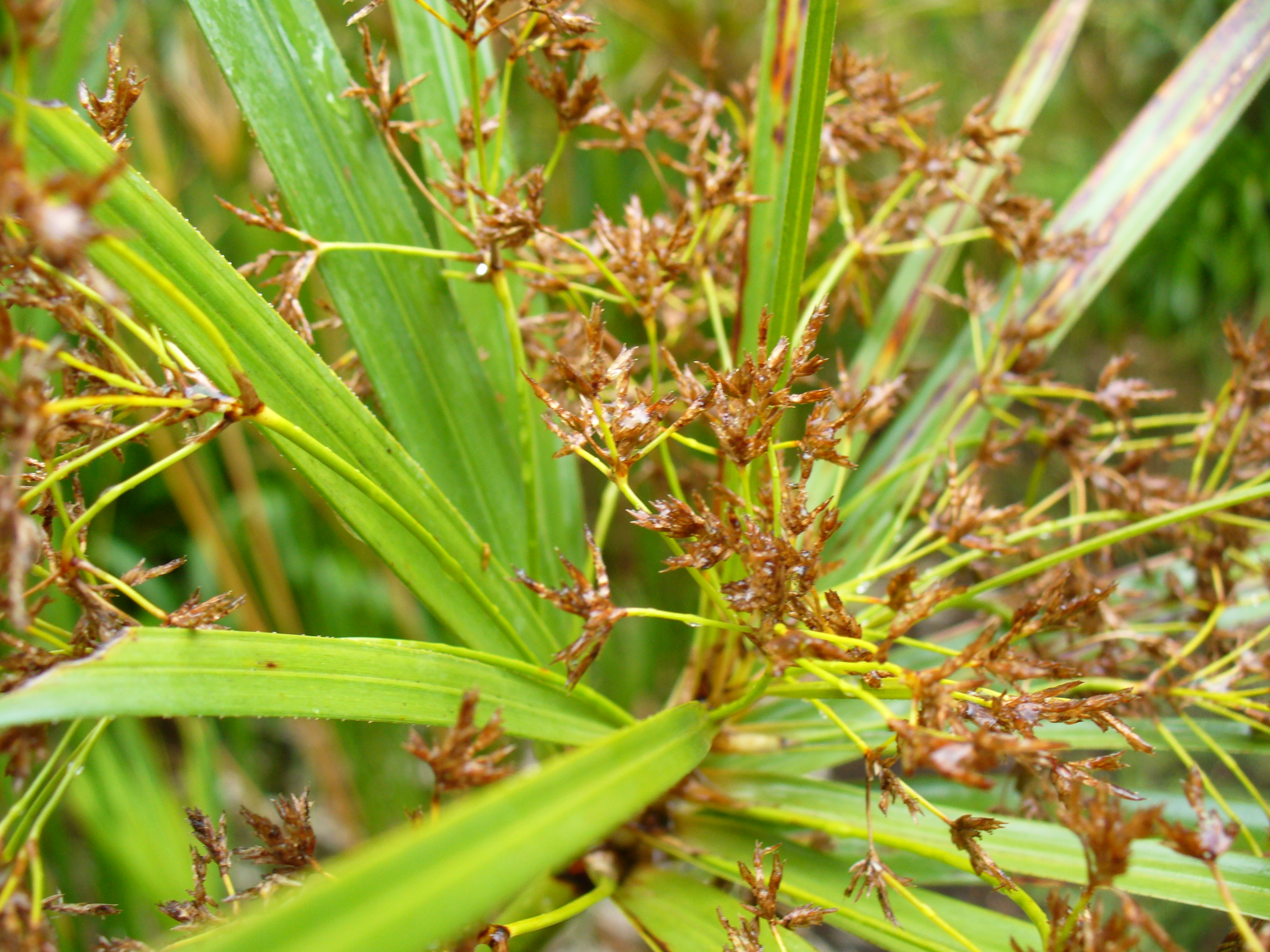 Matjiesgoed. Kirstenbosch Gardens Cape Town